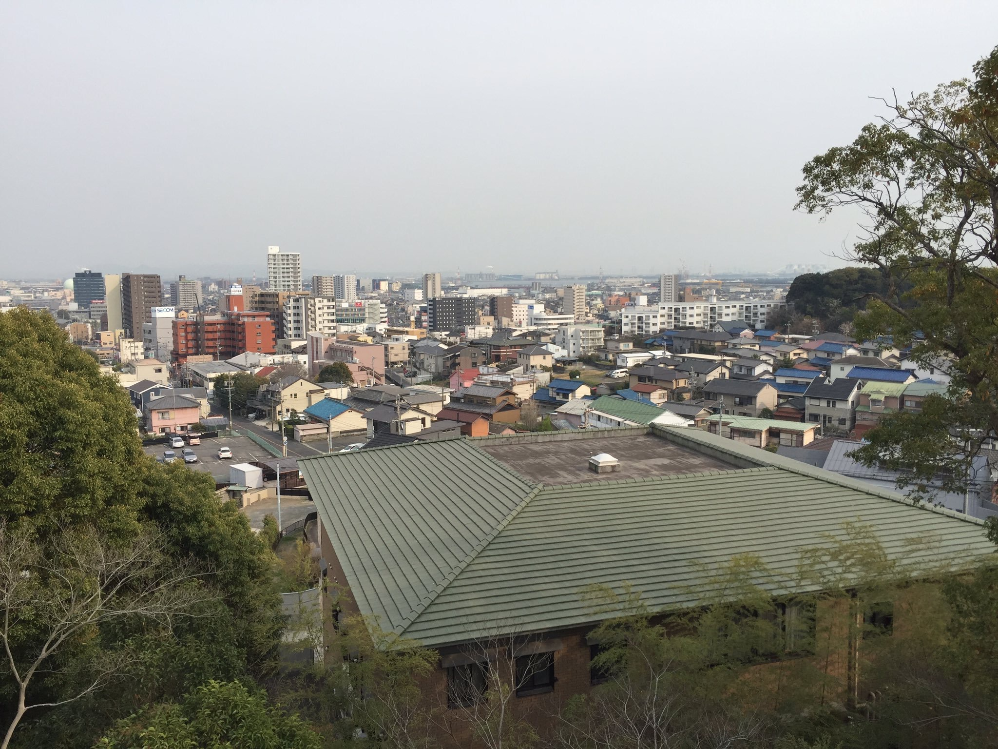 Handa City Skyline from Kariyado Park